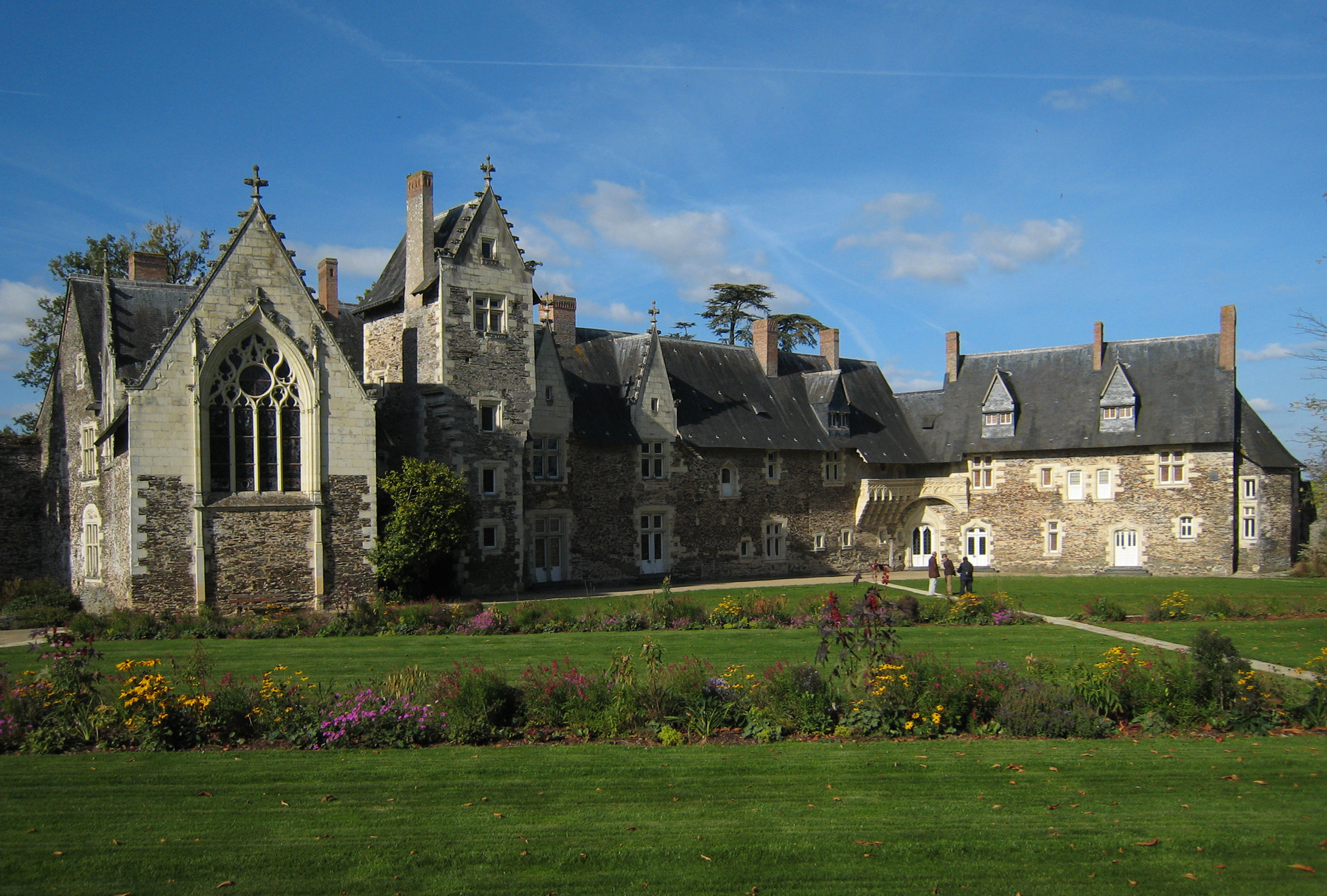 Castle Le Plessis-Macé, located in the village of Le Plessis-Macé near the town of Angers in the county of Maine-et-Loire/France, manor-wing of the castle